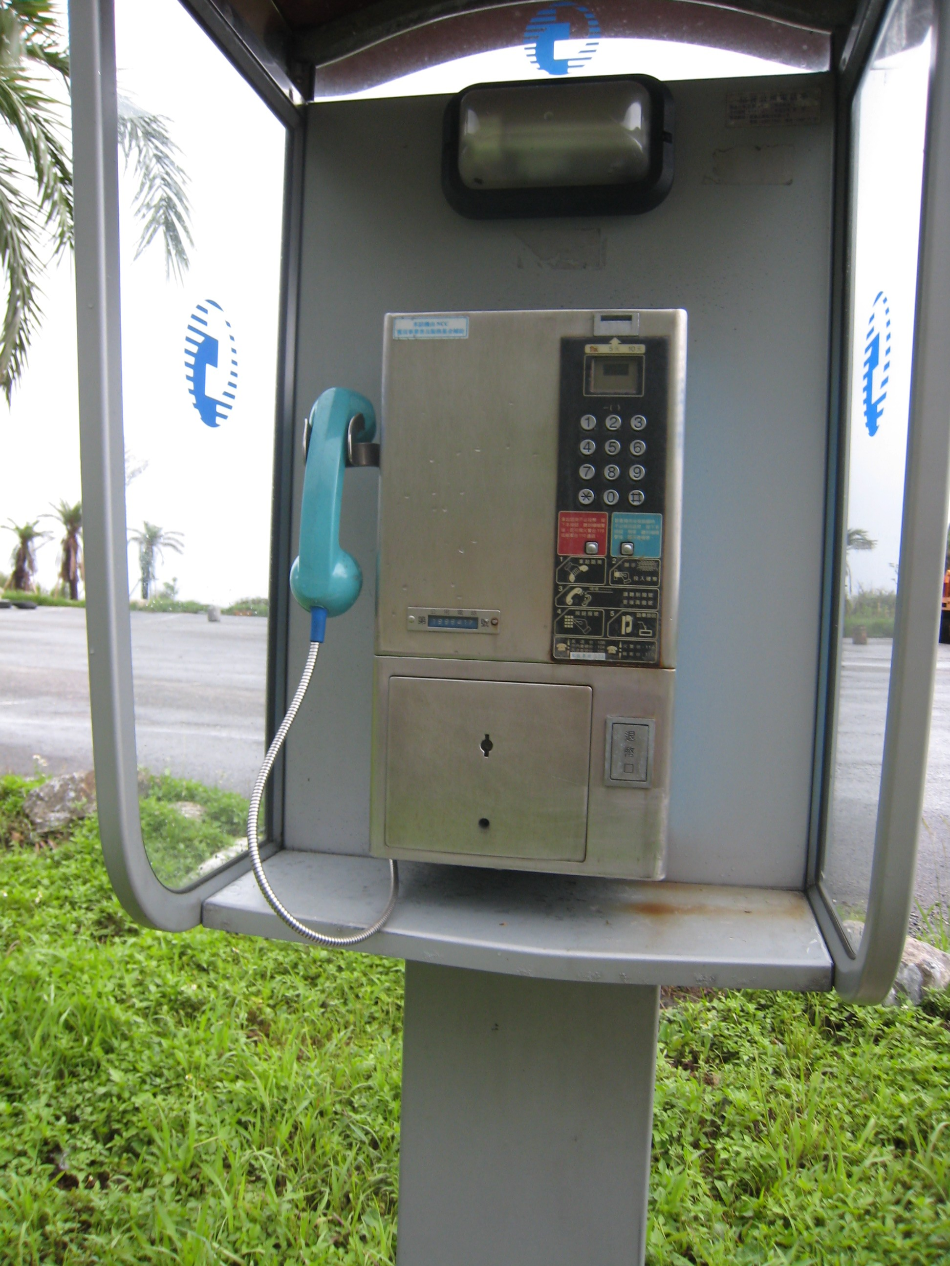 Public telephone booth of Chunghwa Telecom at Suhua Highway. 中文（台灣）: 蘇花公路，要去南澳的路上看到的中華電信投幣式公用電話亭。